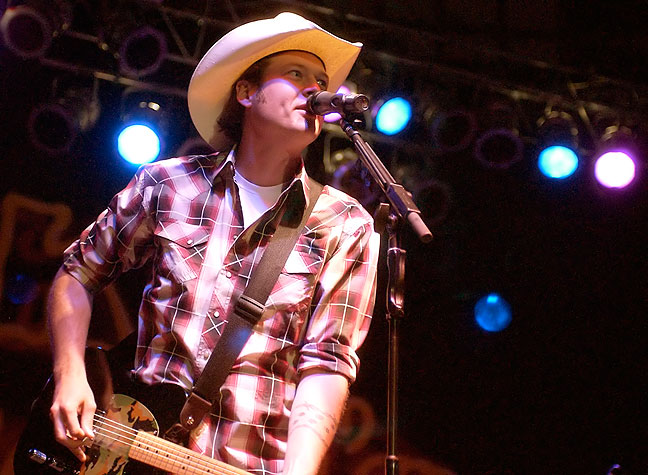 Blake Shelton performs at Raindance II, a benefit concert in Ada, Oklahoma, in the summer of 2007. (Photo by Richard R. Barron)